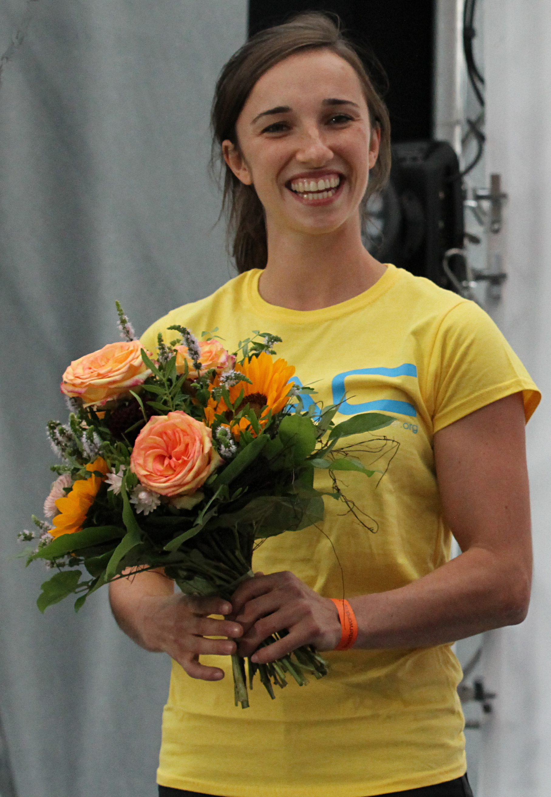 IFSC Boulder Worldcup, Munich 2015. Juliane Wurm im Interview